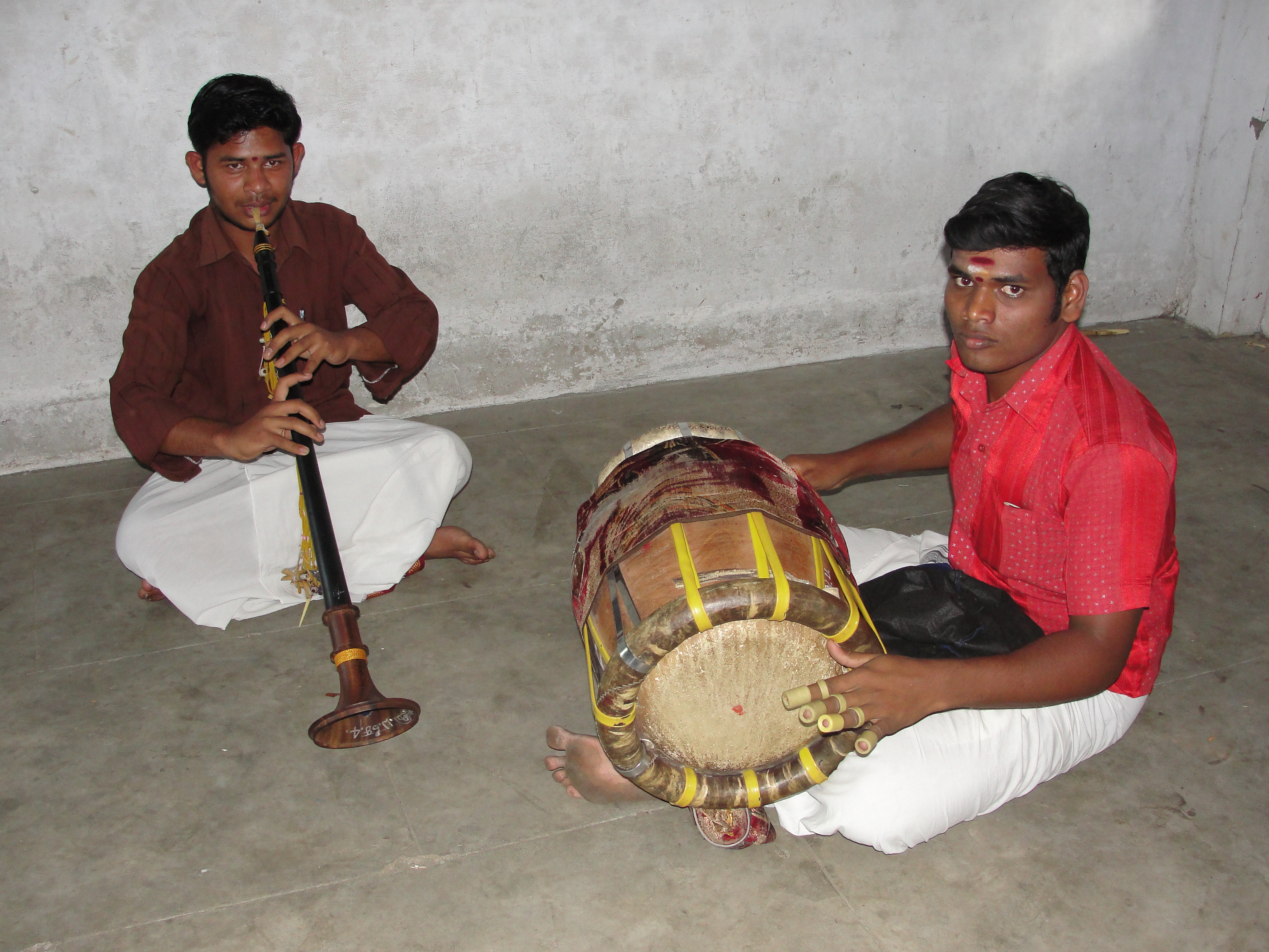 A depiction of Tavil, Nadaswaram play